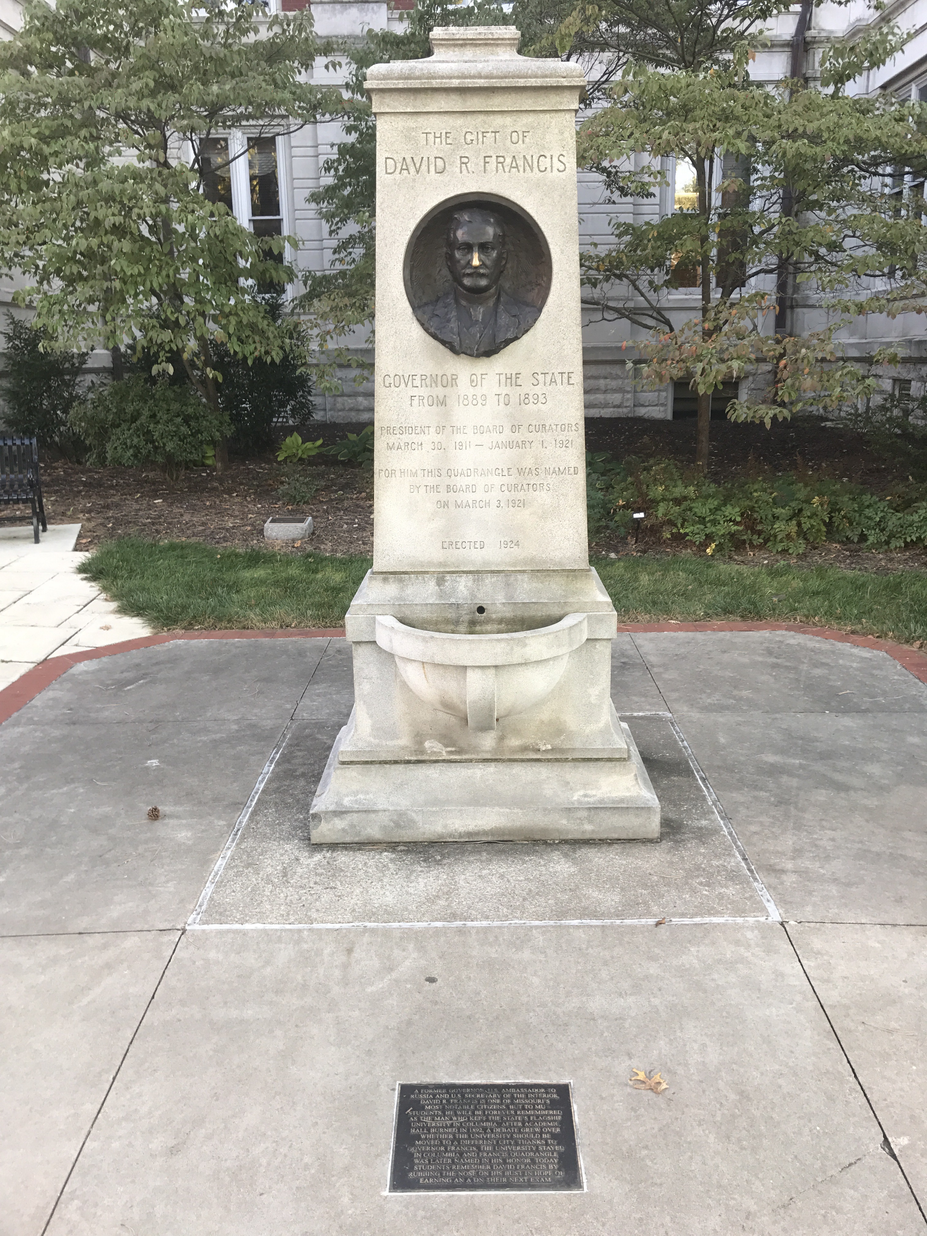 Francis Marker at the University of Missouri. North side